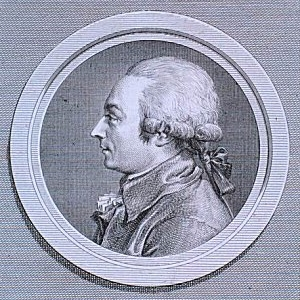 Portrait of Pierre-Henri de Valenciennes (1750-1819), French painter